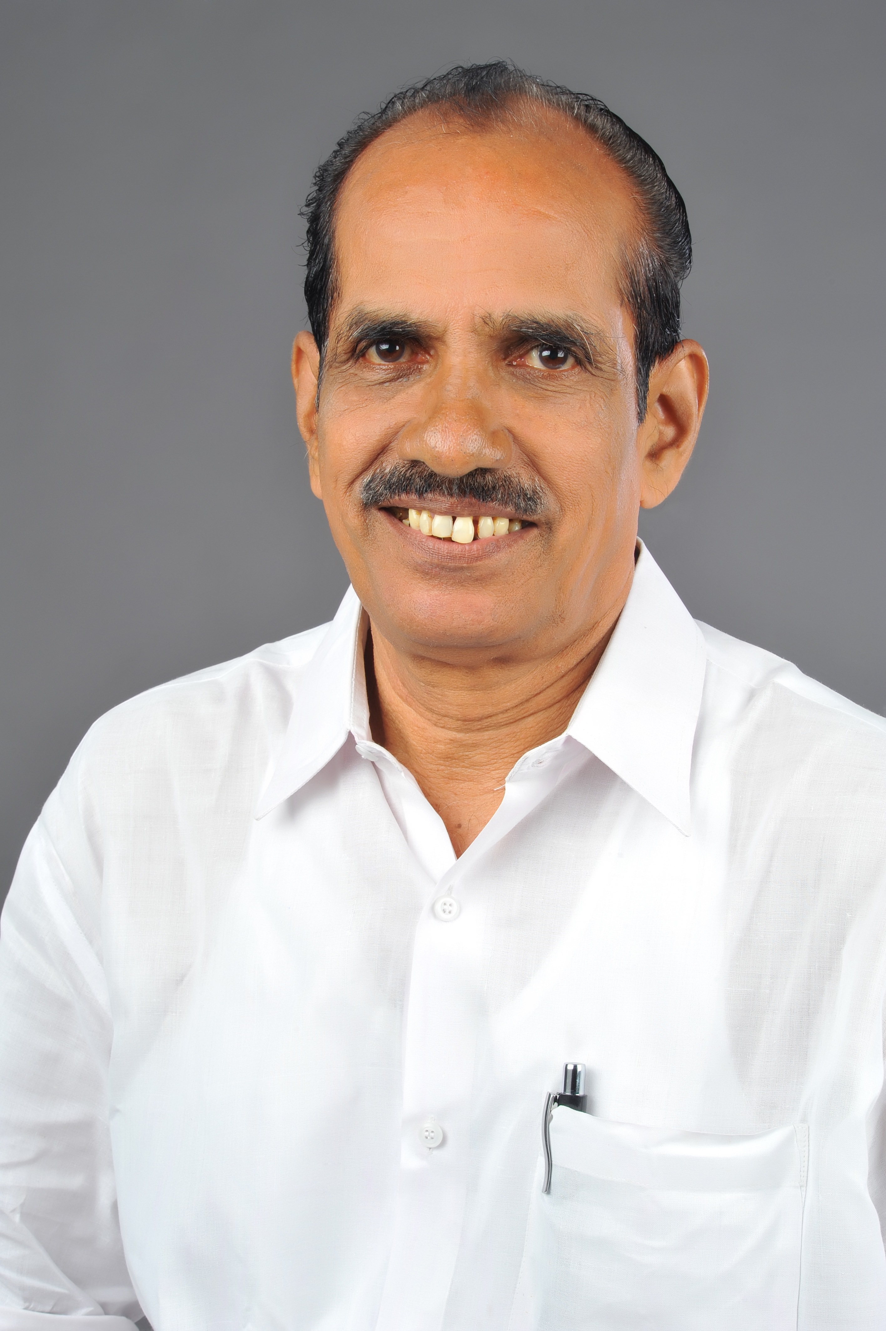 P A Madhavan, Political Leader, Social Activist, Member to legislative Assembly Kerala